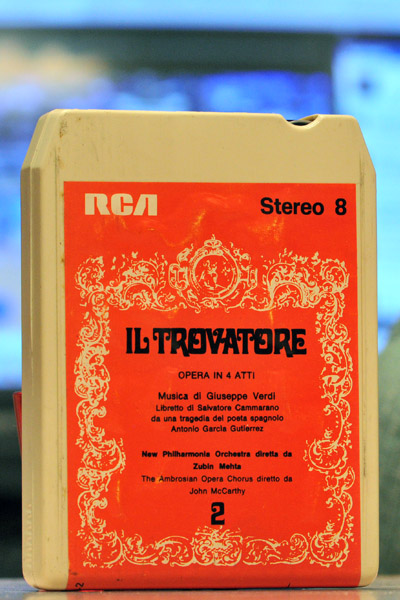 Photo of an eight-track tape.